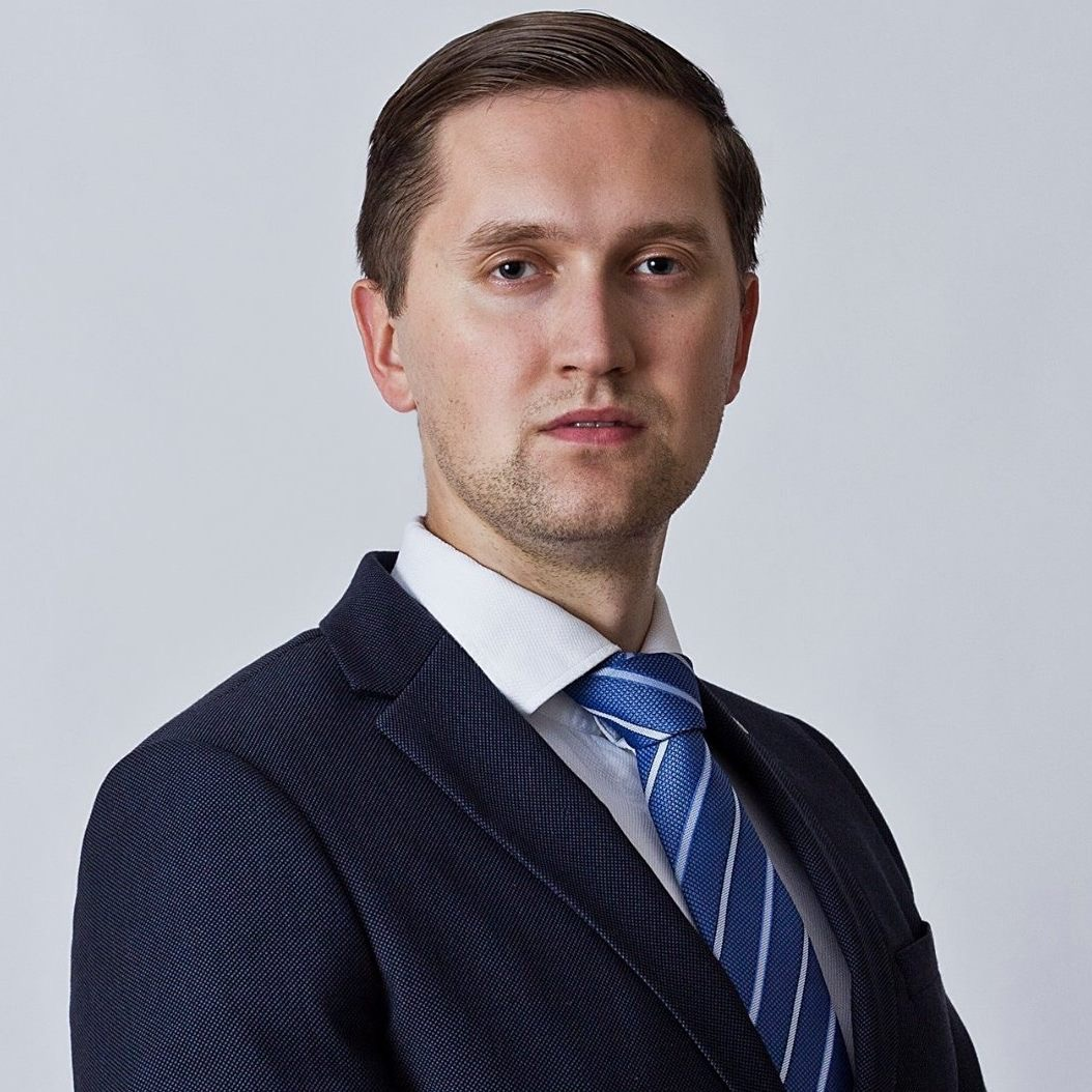 Jaak Madison's portrait